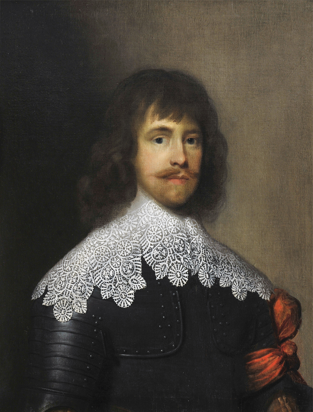 Portrait of Richard Herbert, 2nd Baron Herbert of Chirbury (1604-1655)